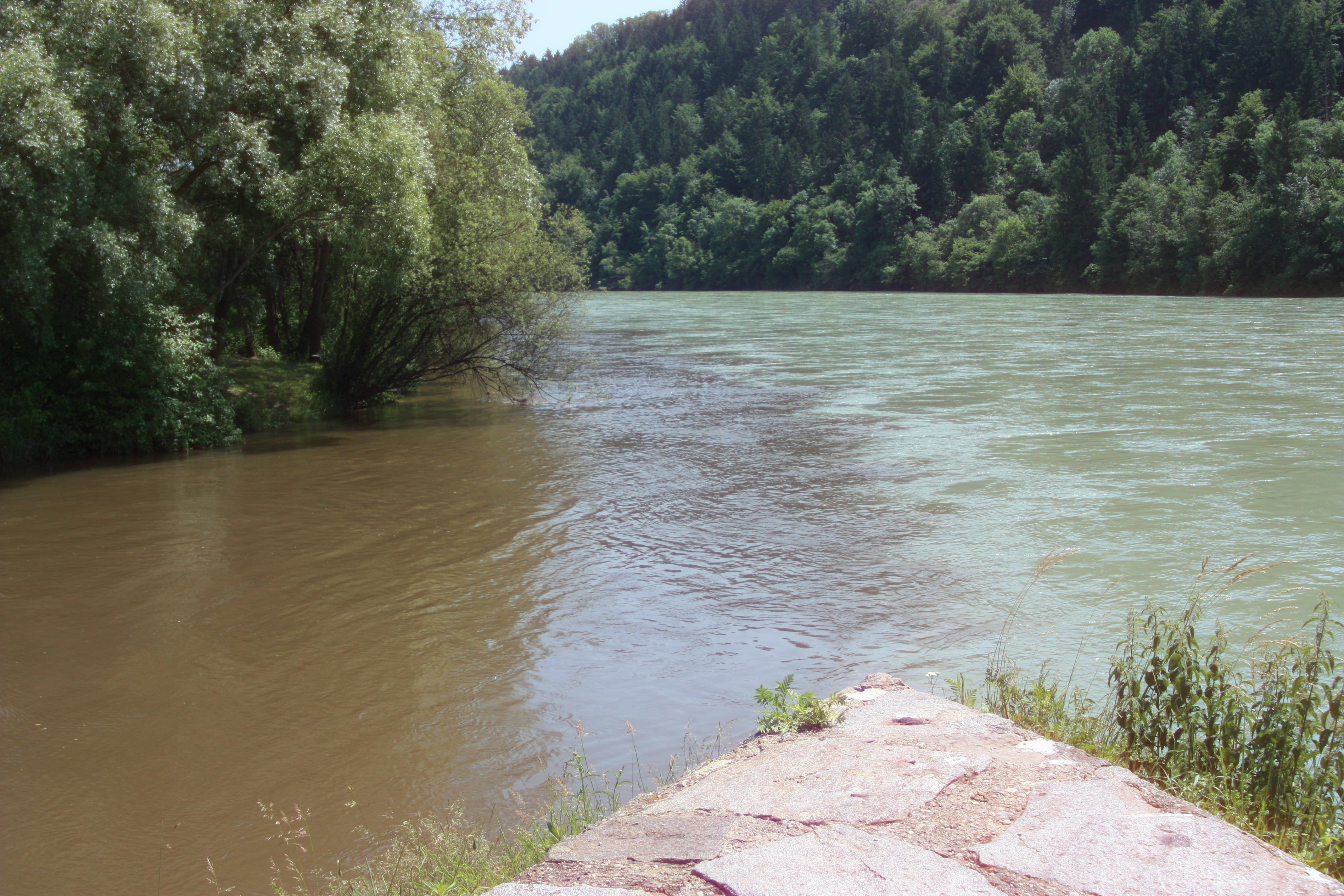 Confluence of the rivers Lanvant (left) and Drava (right)